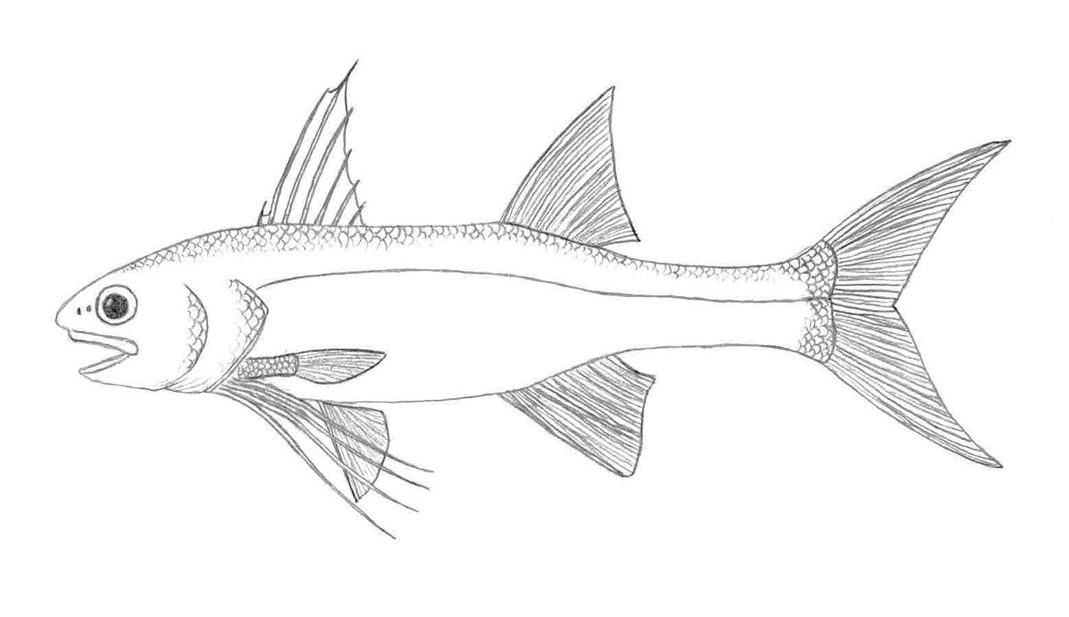 Pencil drawing of a Giant African threadfin (Polydactylus quadrifilis). Open mouth, spread fins. The scalation is partially depicted.